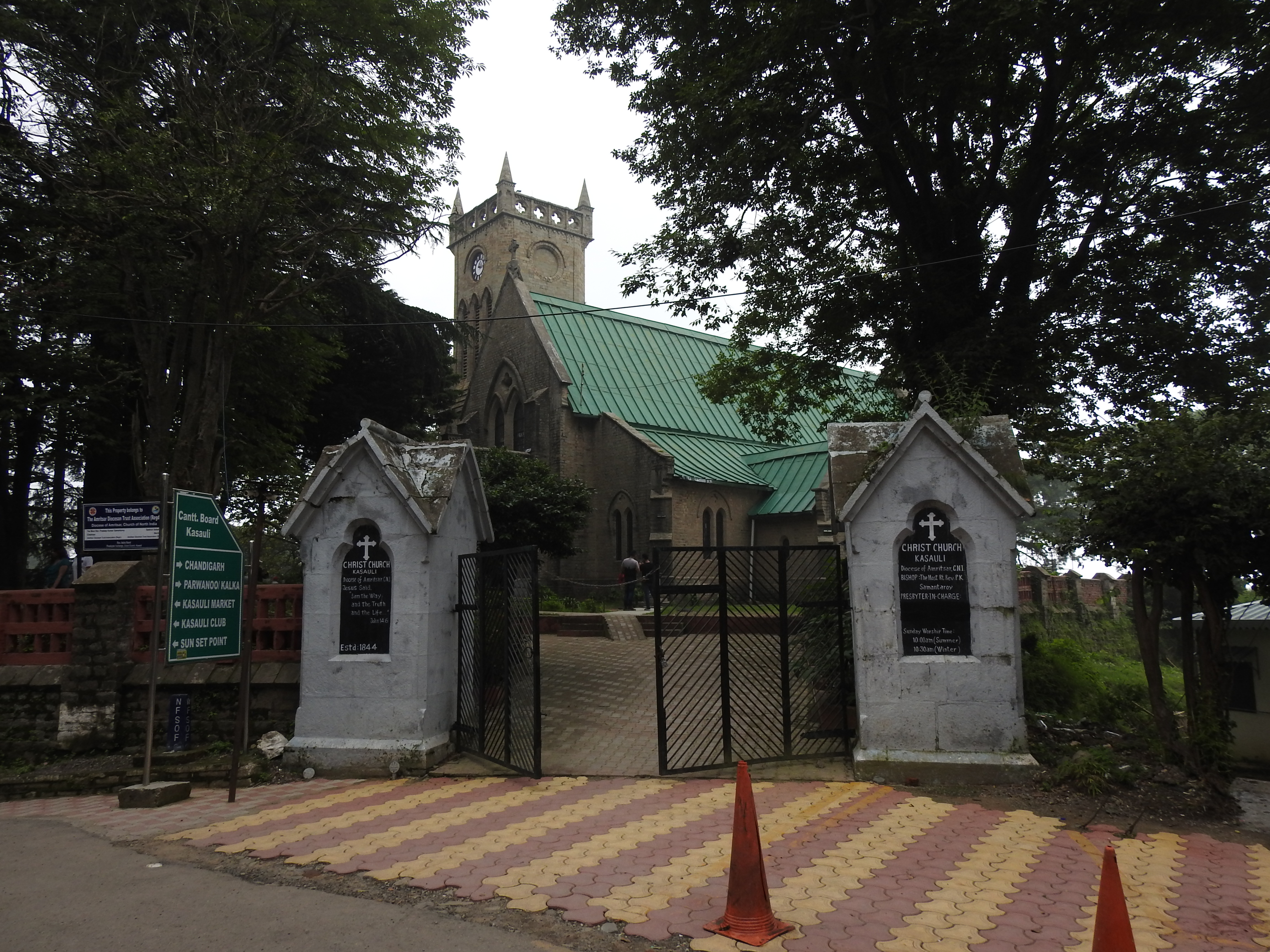 Christ Church, Kasauli ,Solan ,Himachal Pardesh